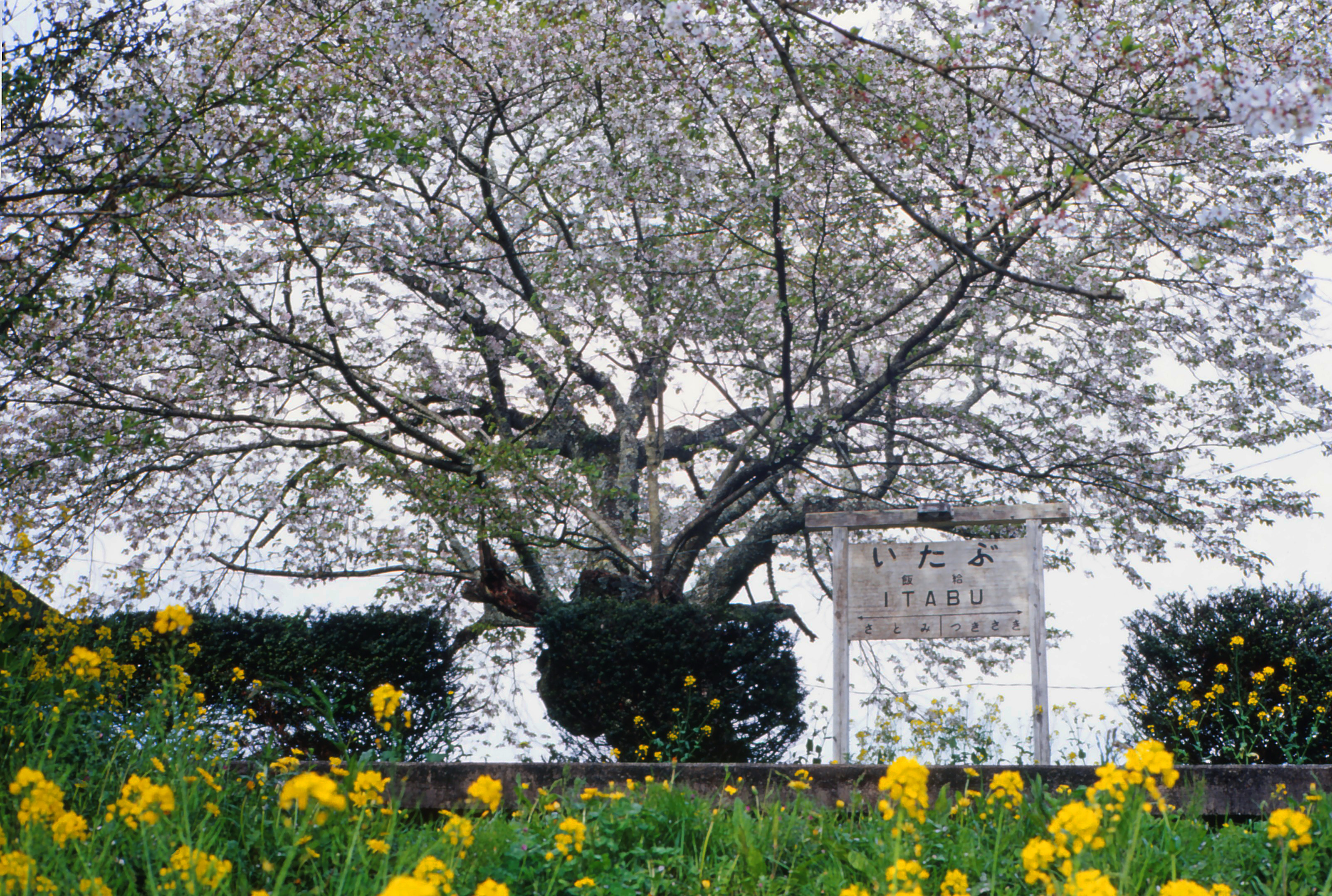 Itabu Station on the Kominato Line in Ichihara, Chiba, Japan